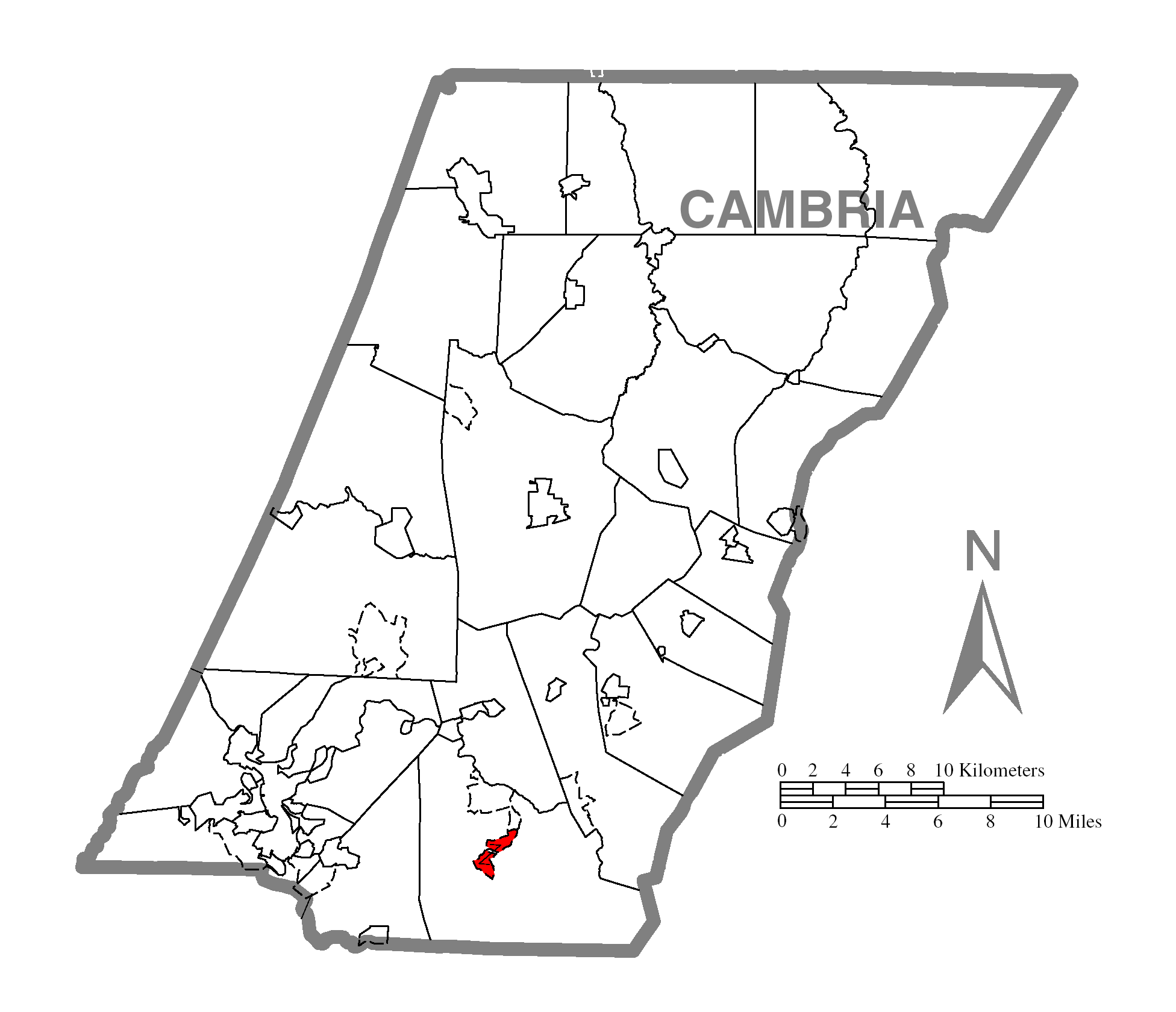 A map of Cambria County showing Salix-Beauty Line Park, Pennsylvania (alternate) highlighted on the map.